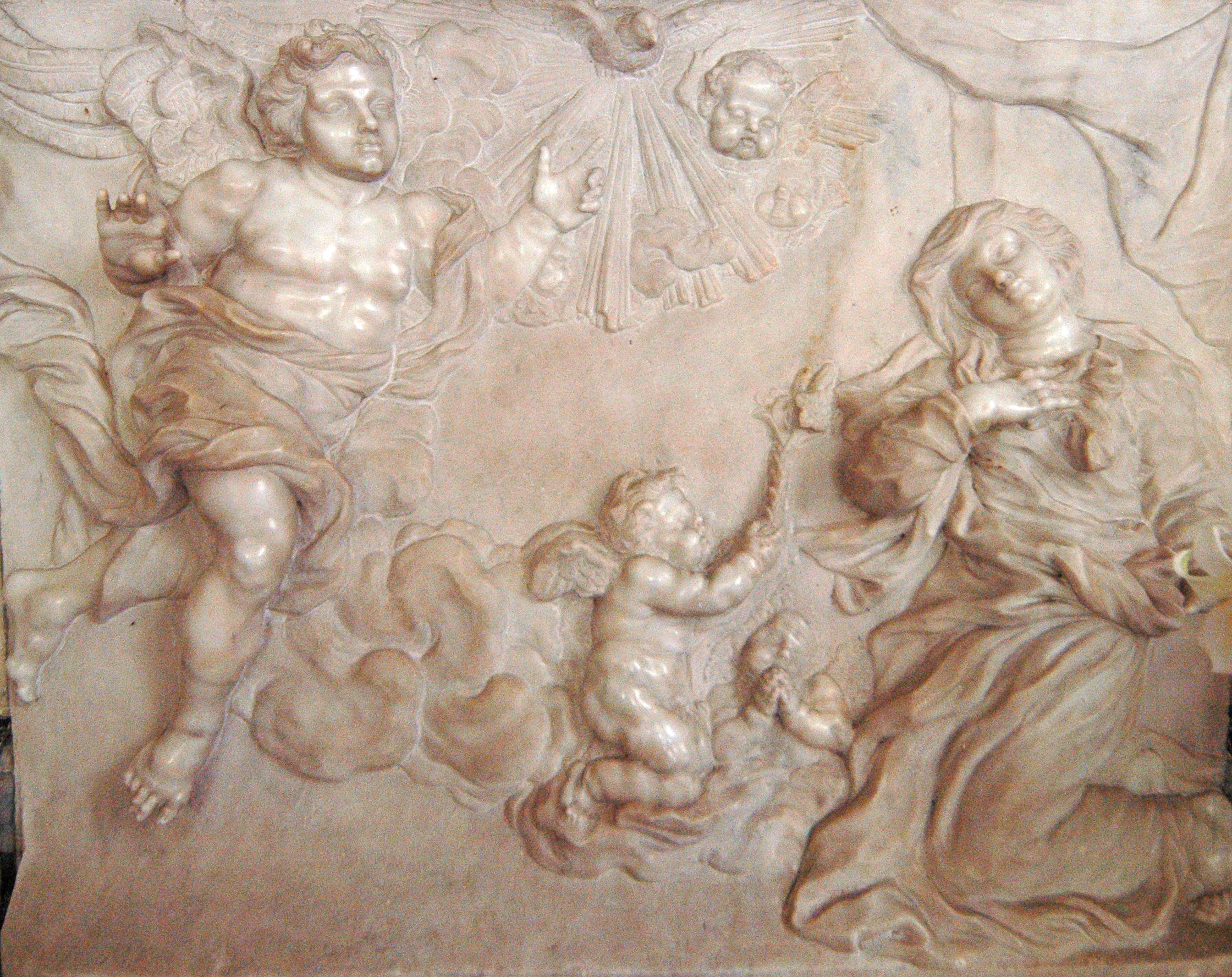 Altar relief in the church Saint Madonna of Loreto at Trenta in Slovenija; sculptor Bernardo Tabacco